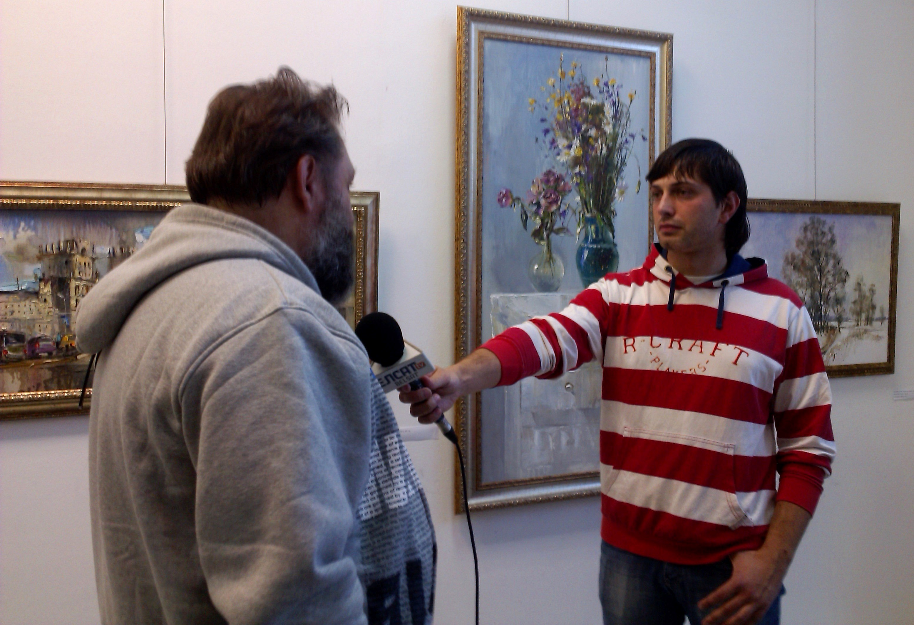 Belarusian director animator Mikhail Tumelya. Interview to the channel Belsat. September 24, 2013.